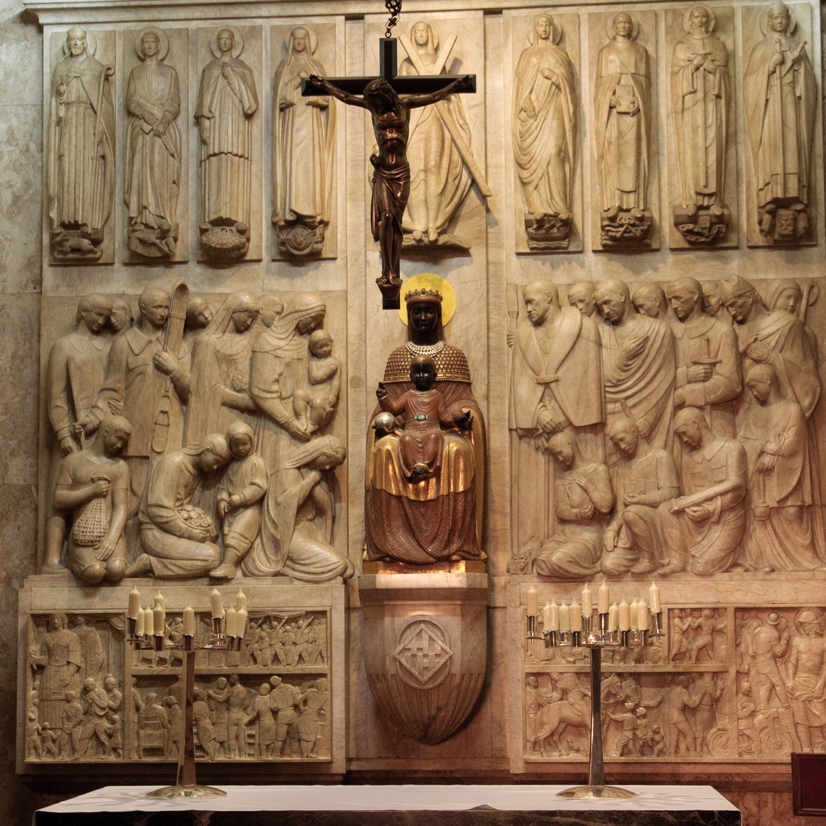 Barcelona. City Hall. Bon Consell Chapel